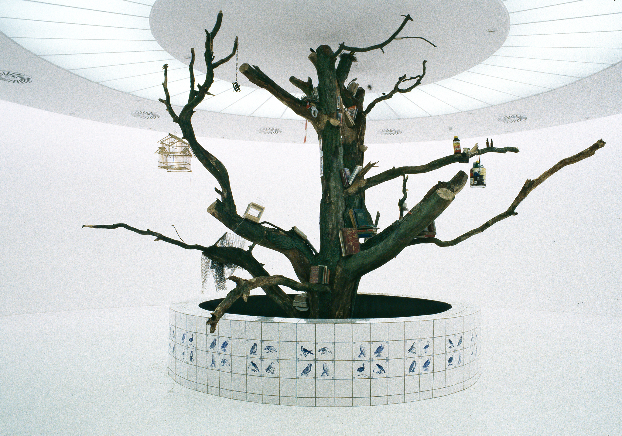 Mark Dion - installation view: On taking a normal situation and translating it into overlapping and multiple readings of conditions past and present, Antwerp (1993)